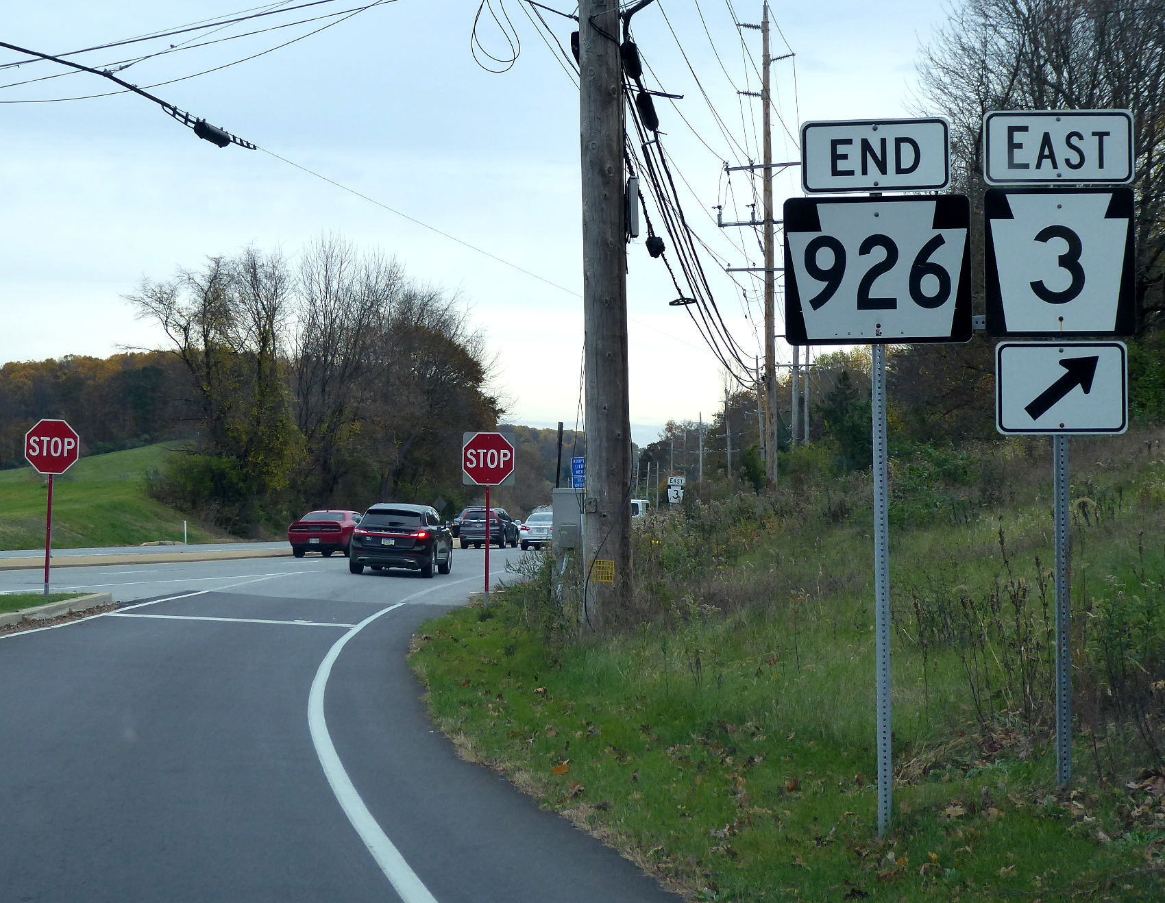 Pennsylvania Route 926 eastern terminus at Pennsylvania Route 3 in Willistown Township.